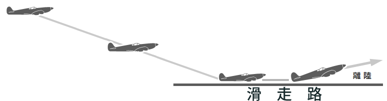 Touch-and-go landing japanese version